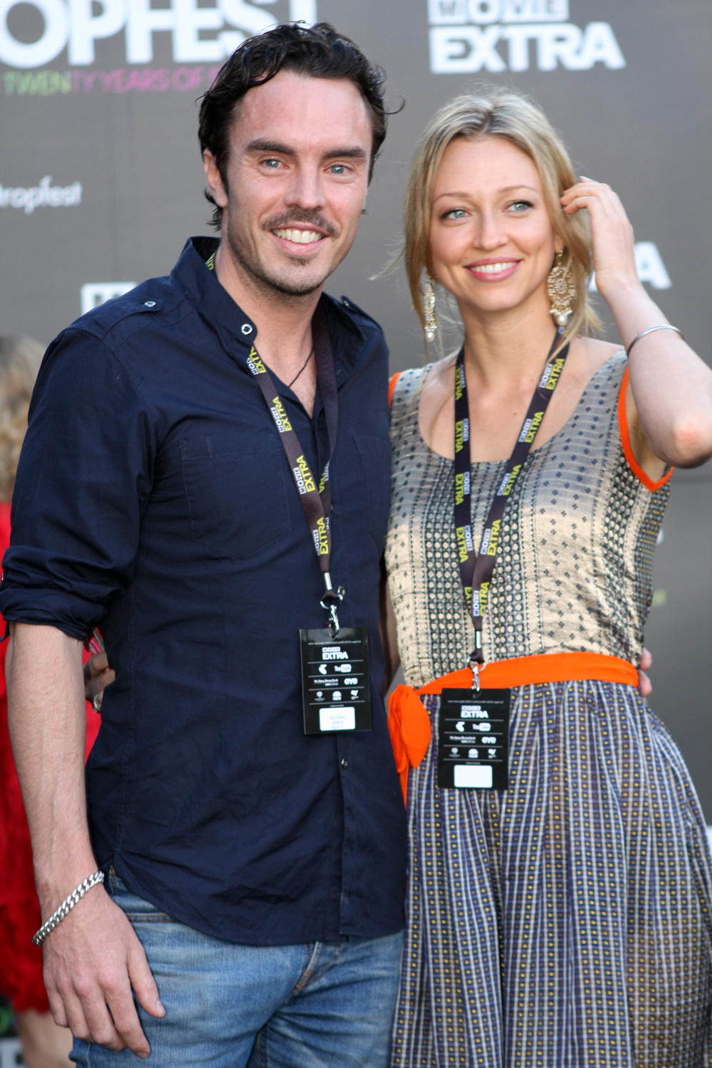 Damon Gameau & Zoe Tuckwell-Smith at Tropfest 2012